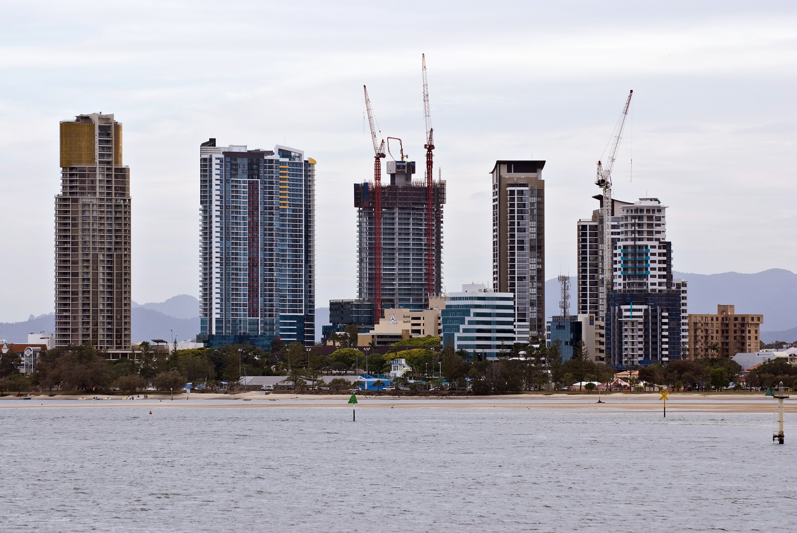 Just north of Surfers Paradise is Southport, the business centre of the Gold Coast. High-rise development close to the water is occurring here as it has in Surfer's Paradise.